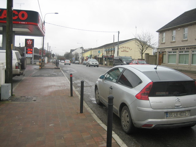 Clonee Village Now rapidly being absorbed into the Greater Dublin Area.